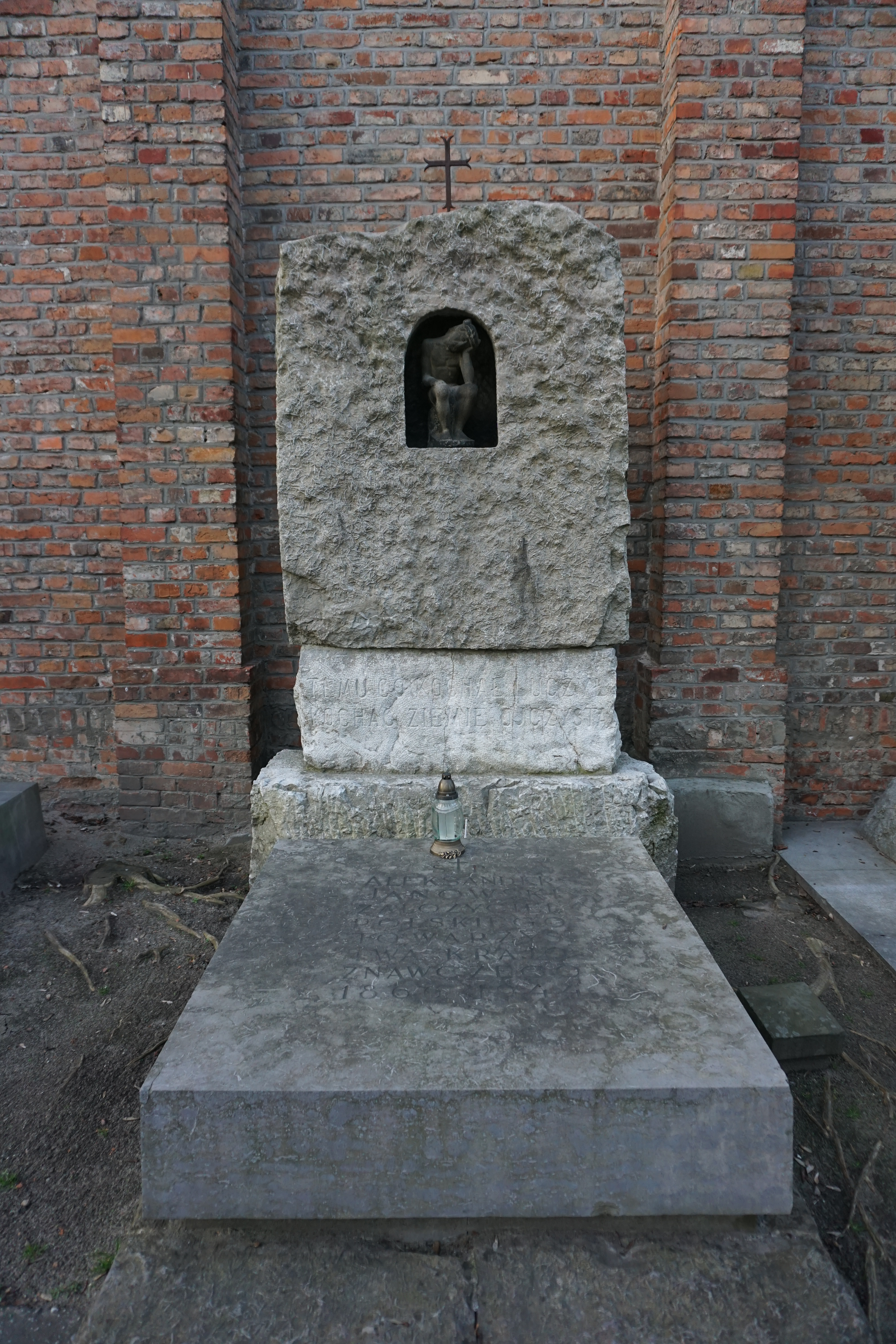 The grave of Aleksander Janowski at the Powązki Cemetery (Avenue of Deserved, grave 52, 53)